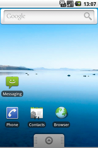 Screenshot of Android Emulator for SDK version 2.0.